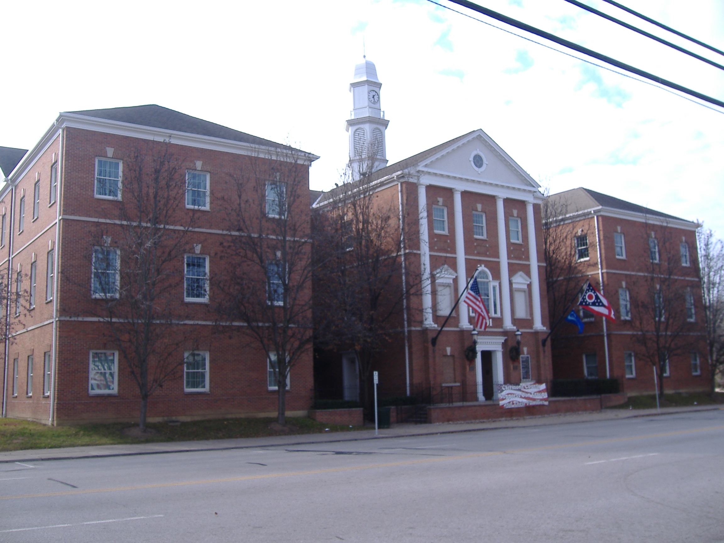 Clermont County Courthouse in Batavia, Ohio.